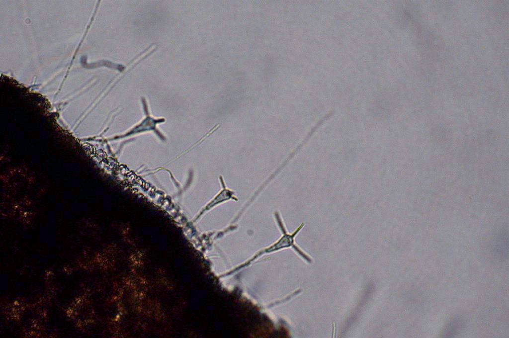 Clavariopsis aquatica (Aquatic Hyphomycetes) Date;2003,11;Susami town, Wakayama prefecture, Japan Author;Keisotyo